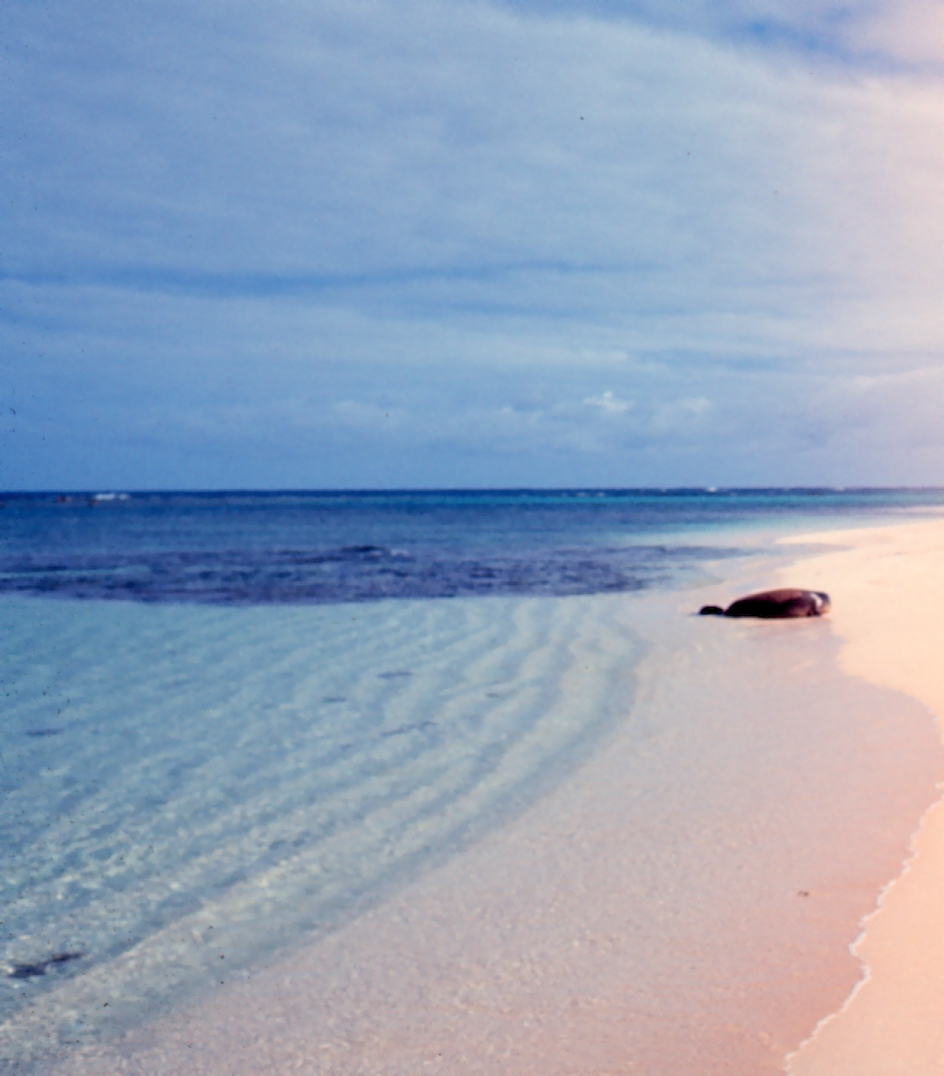 Hawaiian Monk Seal (Monachus schauinslandi) on Laysan Island's beach, Northwestern Hawaiian Islands. Note ripple pattern in coral sand